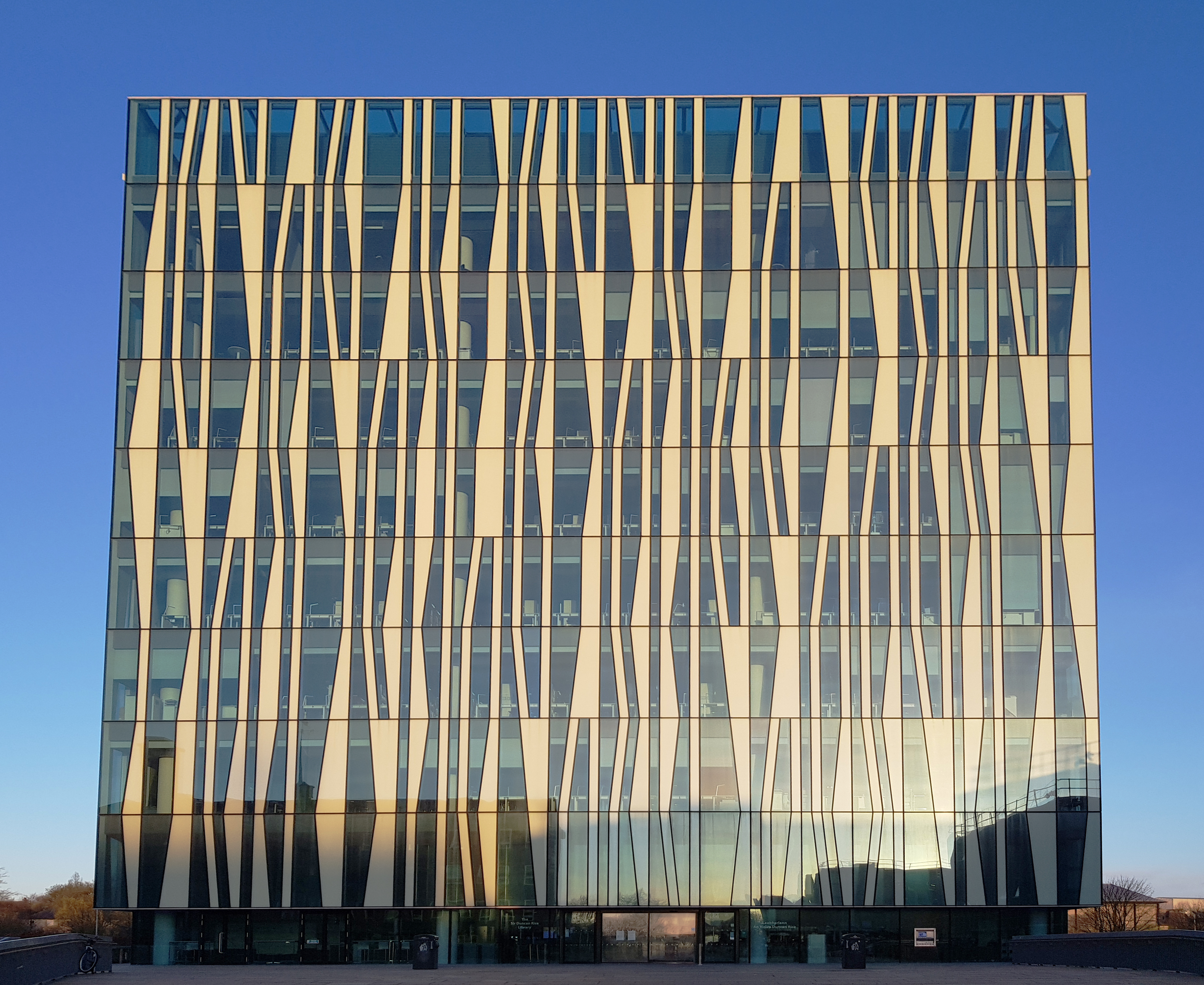 The Sir Duncan Rice Library, University of Aberdeen, at dawn on 21 April 2018. Gàidhlig: Leabharlann An Ridire Duncan Rice, Oilthigh Obar Dheathain, aig briseadh an latha, 21 An Giblean 2018.